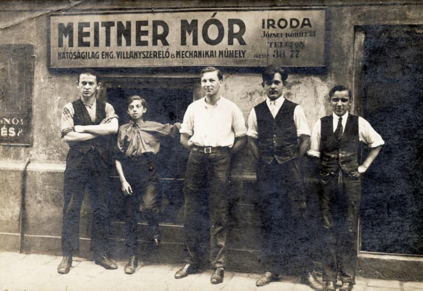 Maria utca 20